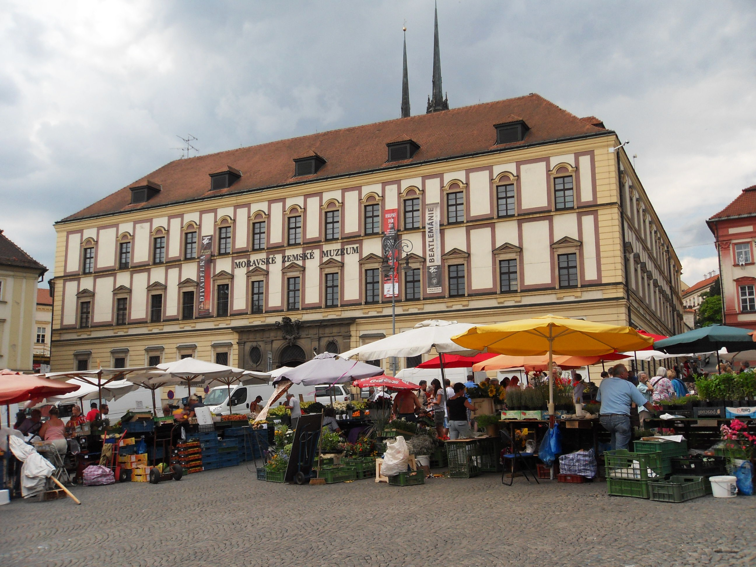 Dietrichsteinský palác (Palais Dietrichstein), Zelný trh square, Brno, Czech Republic